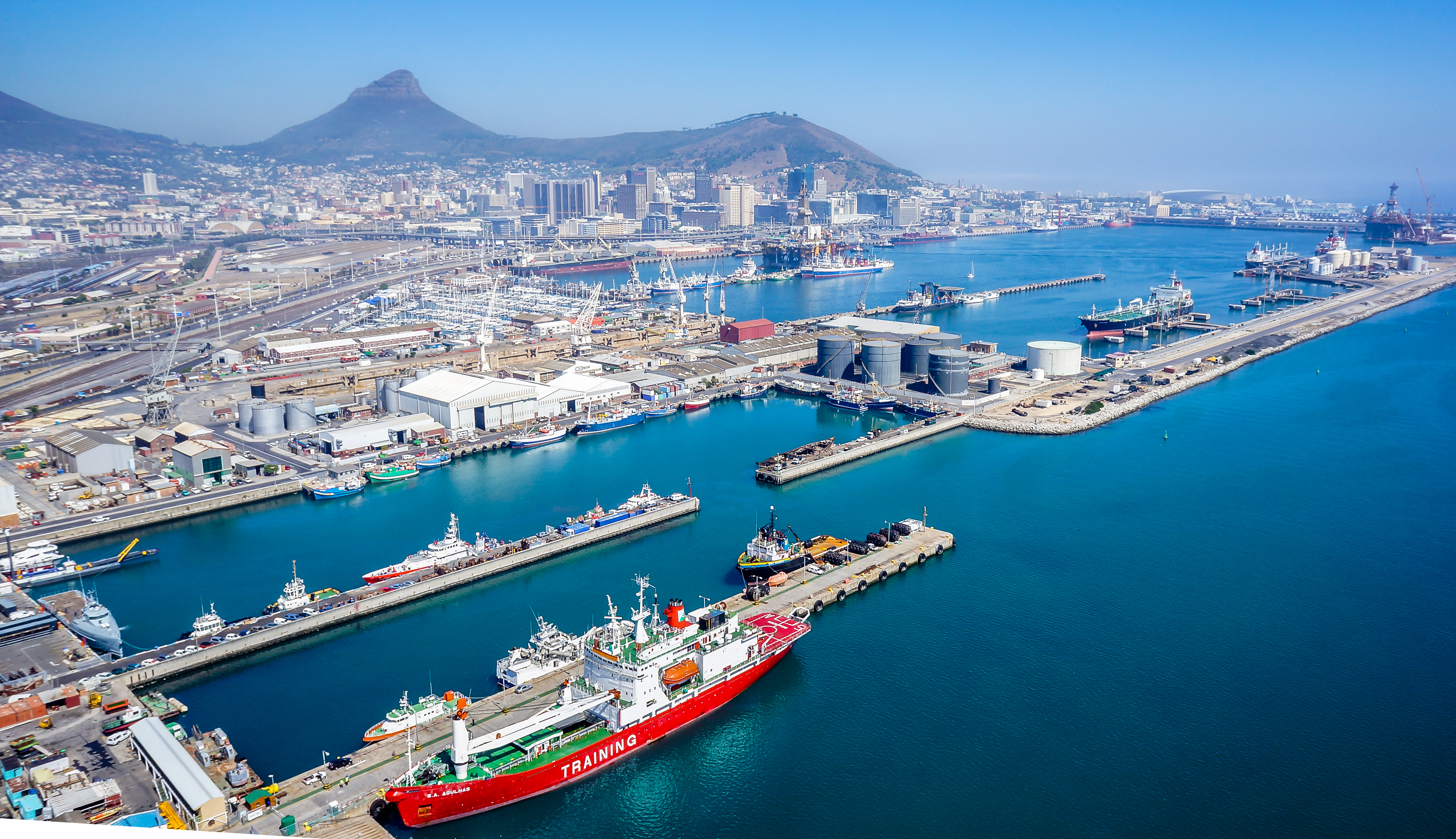 The port of Cape Town remains open 24 hours a day 7 days a week. The depth at the entrance channel is -15.9m Chart datum, is -15.4m at the 180m wide entrance into Duncan Dock and -14m at the entrance to Ben Schoeman Dock. The depth in the Duncan Dock varies between -9.9m near the repair quay to -12.4m at the tanker basin. Ben Schoeman Dock varies from -9m to -13.9m. Dredging is currently (2010) underway in the Ben Schoeman Dock (container terminal) to provide deeper berths for new generation container shipping.